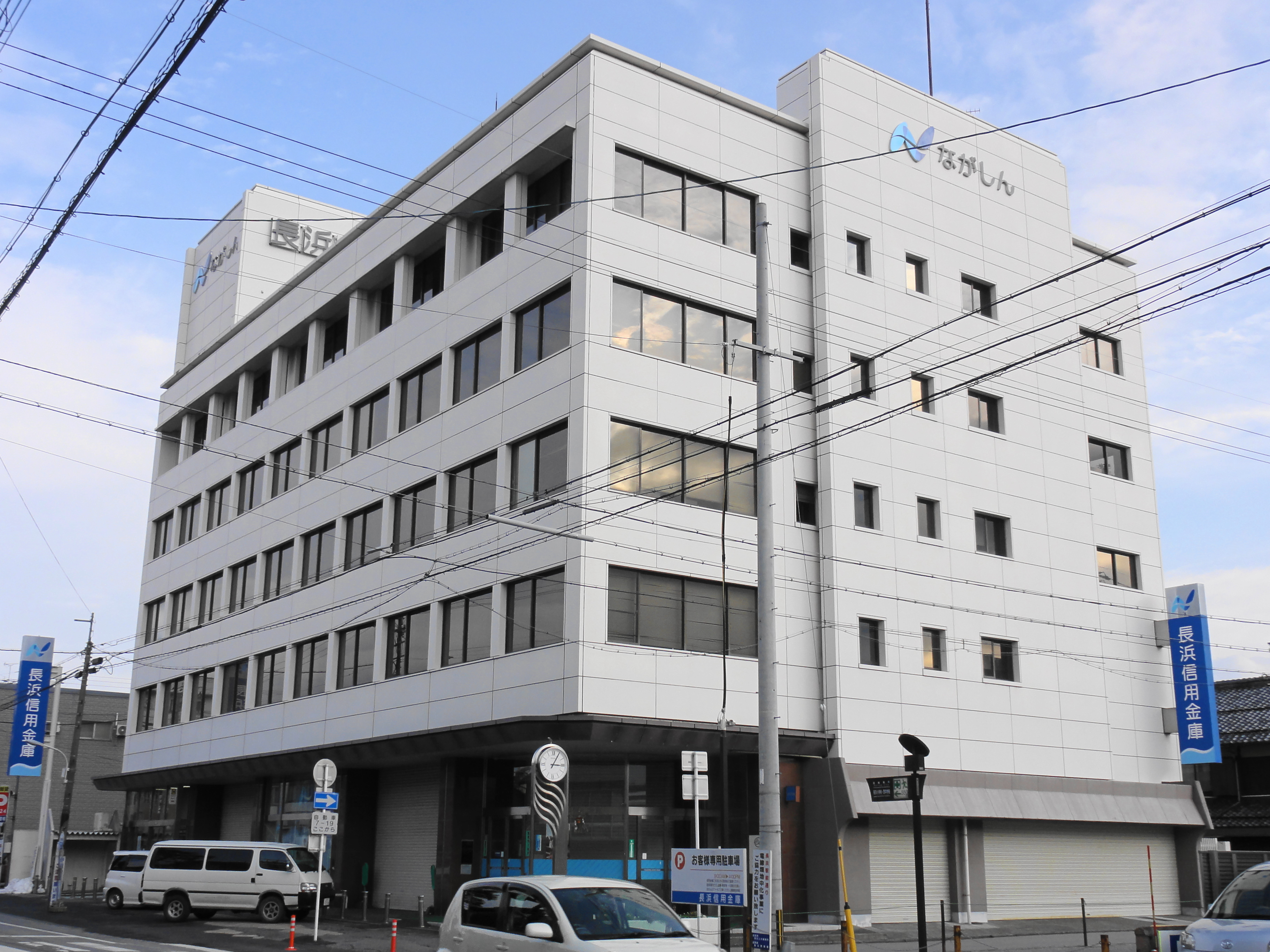 Nagahama shinkin bank(Head office),Shiga prefecture, Japan